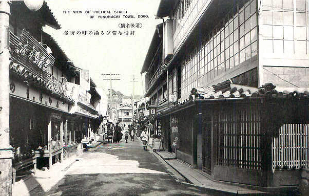 Dogo-Onsengai in Matsuyama, Ehime pref., Japan.